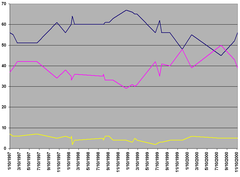 Hillary Rodham Clinton Gallup Poll ratings, 1997-2000